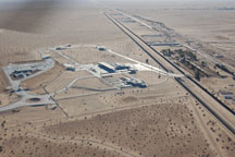 GSA aerial photo of the San Luis II port of entry